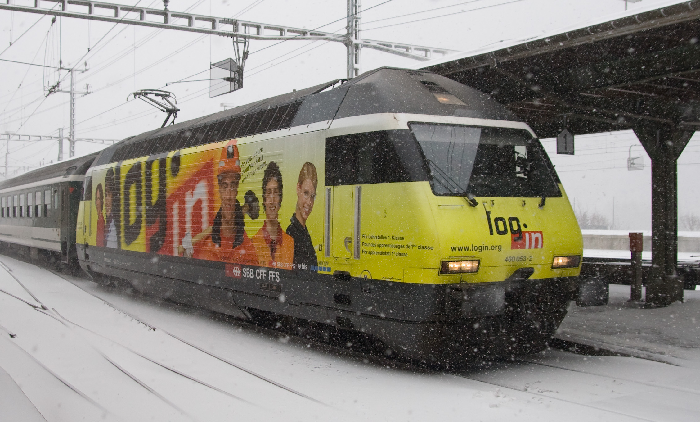 SBB Re 460 with advertisement for Login, an organisation that provides education and training for jobs in the public transport sector. The picture was taken in Göschenen.